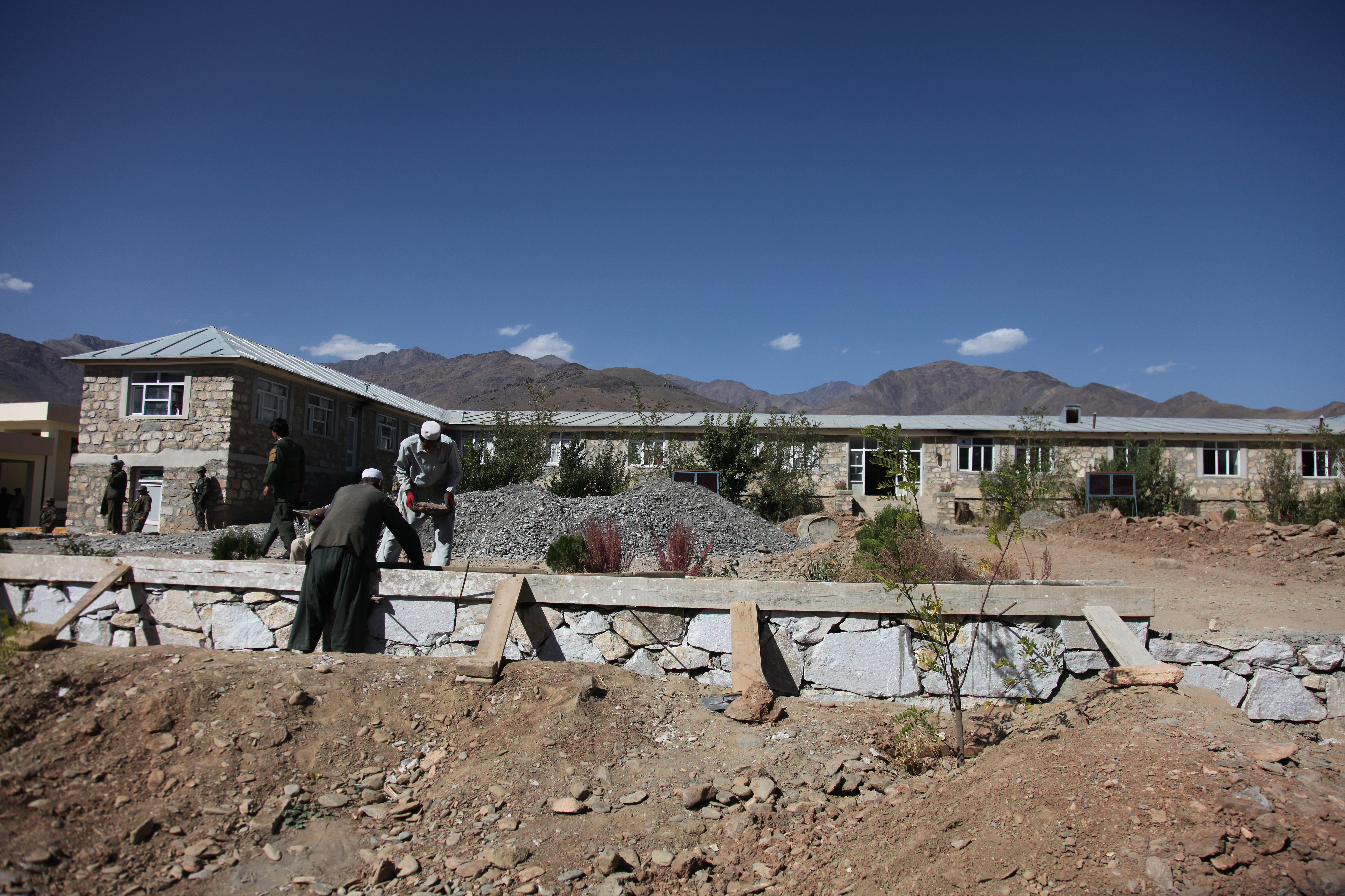 Afghan construction workers build a fence for a school in Jalrez, in the Wardak province of Afghanistan on Sept. 30. The school was build with funds by the Afghan Public Protection Program. The AP3 program was designed to increase security, empower local residents and encourage them to play a larger role in protecting their villages and keeping insurgents out of Wardak Province.